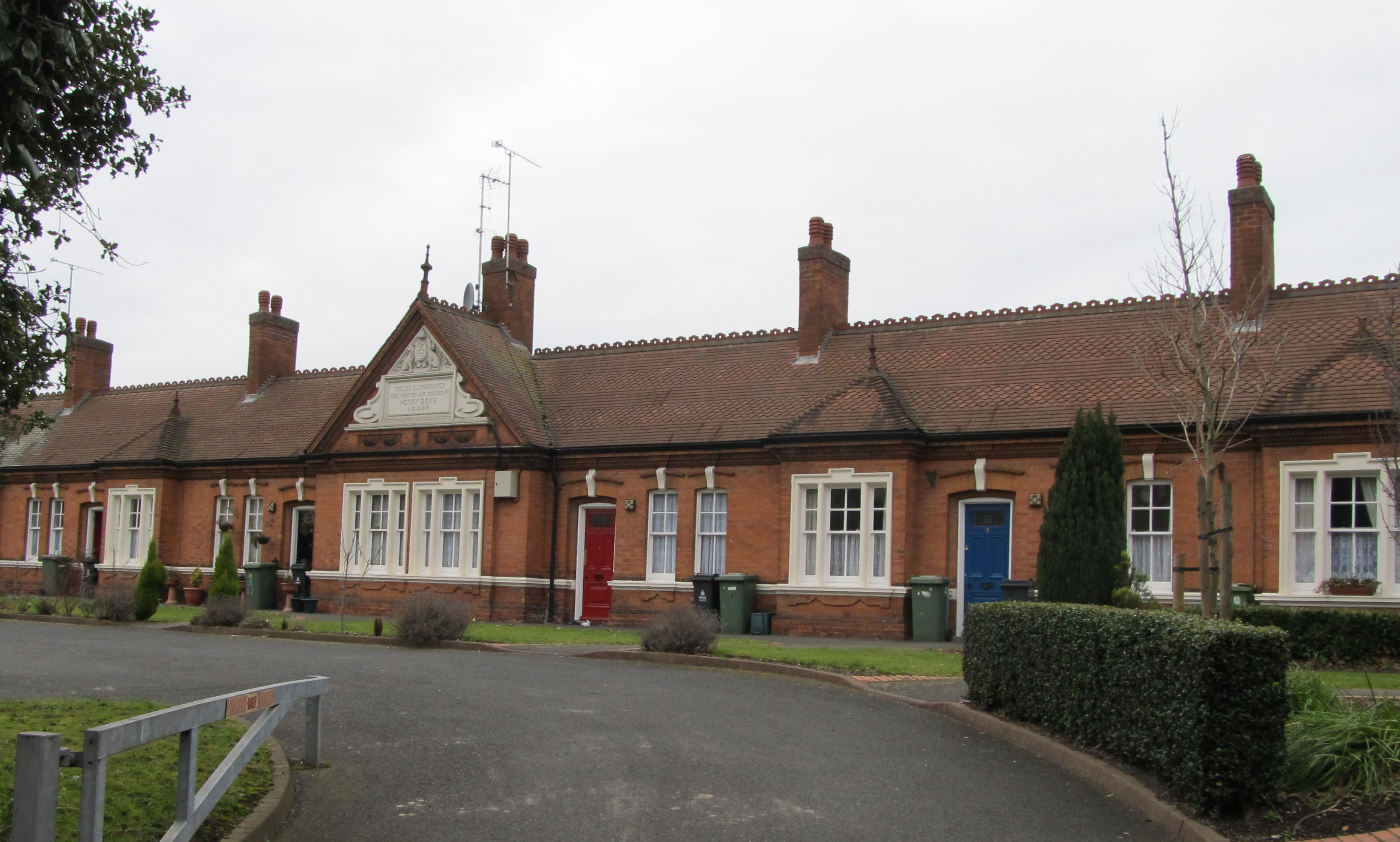 Henry Boys Almshouses, Walsall